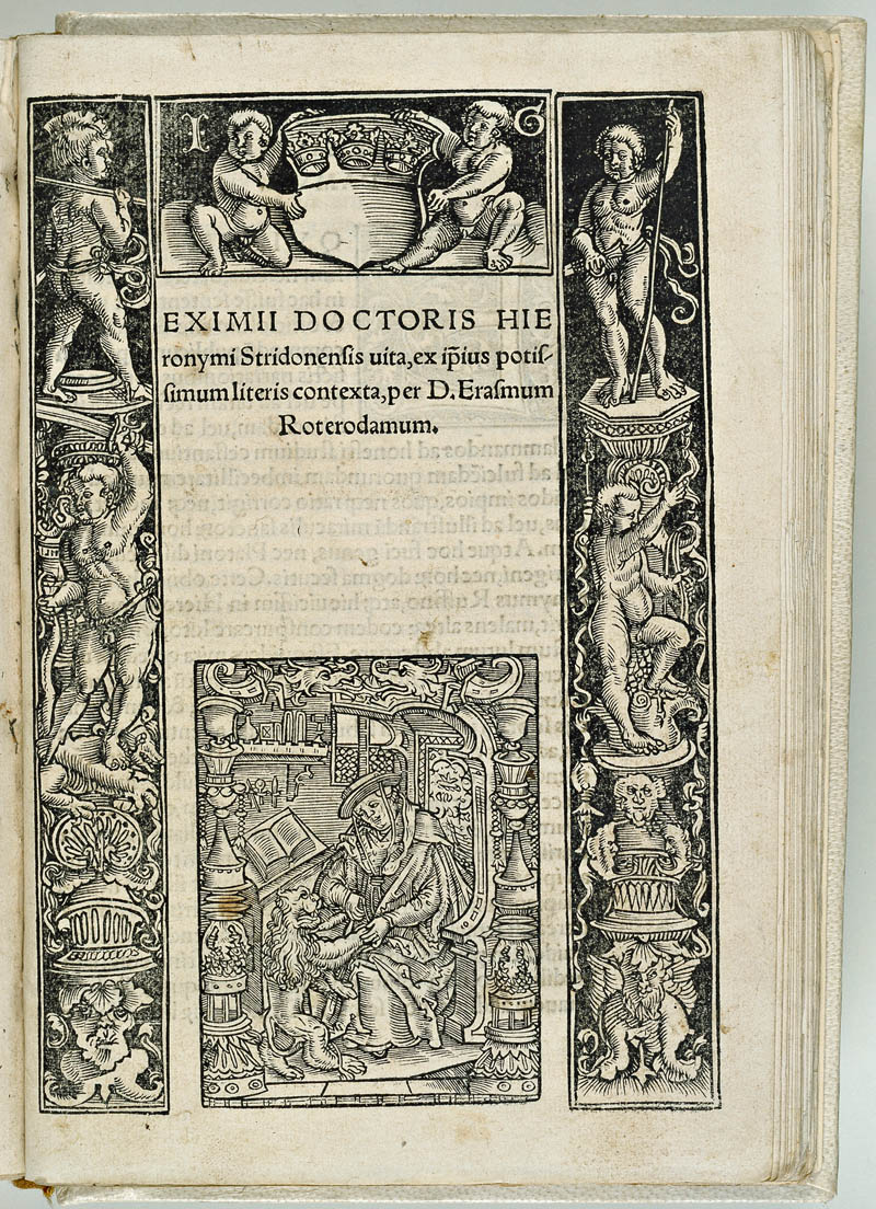 Ornamental border by Johann Gymnich on the title page of Erasmus's biography of Hieronymus (1517). Shelfmark: KB KW EDAM 13:5